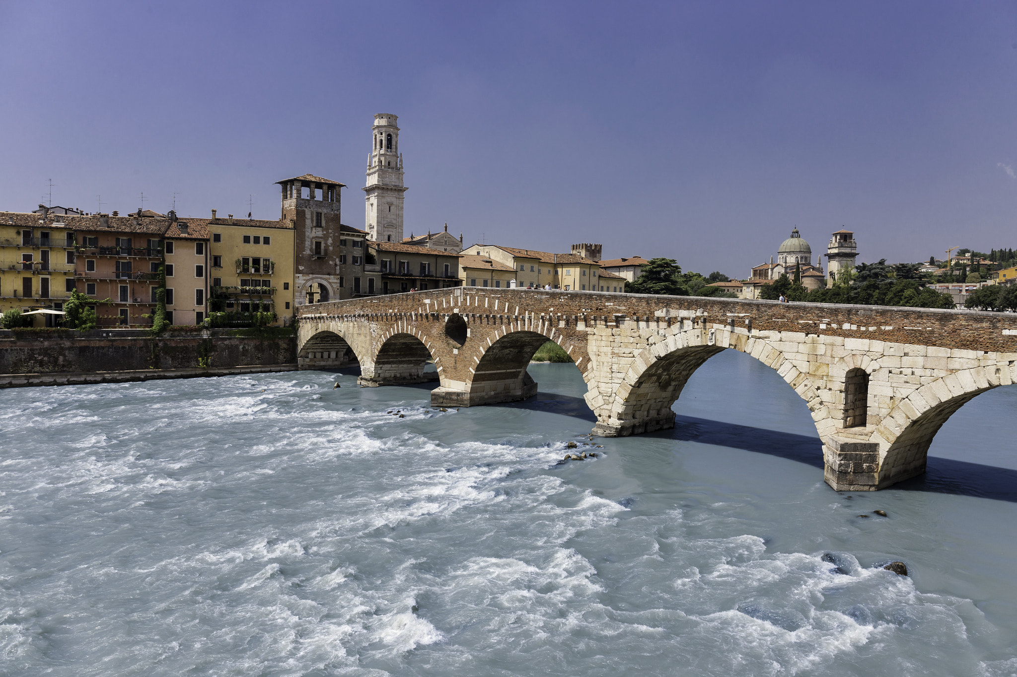 500px provided description: verona [#sky ,#sea ,#water ,#river ,#travel ,#blue ,#italy ,#bridge ,#summer ,#building ,#brown ,#holiday ,#verona ,#bardolino]